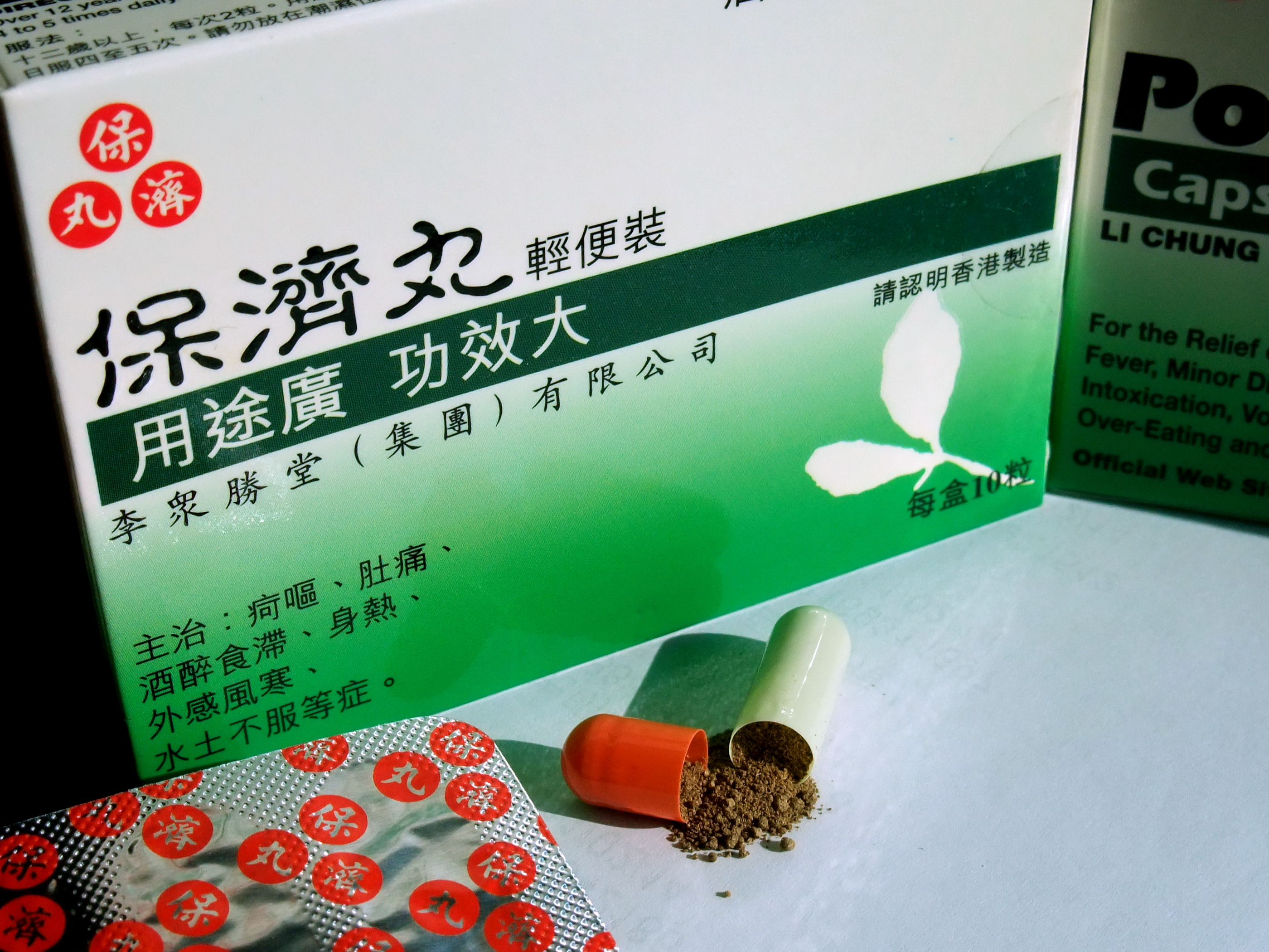 Po Chai Pills Capsule Form